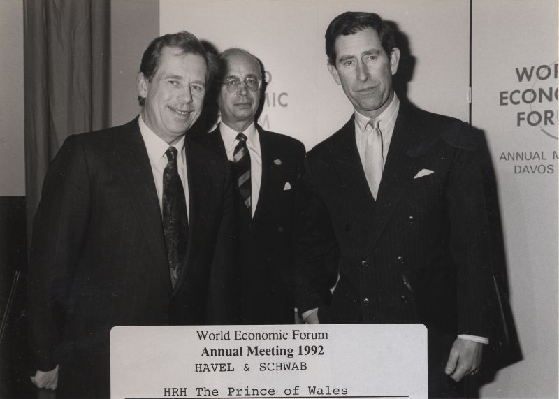 World Economic Forum Annual Meeting 1992 - Vaclav Havel, Klaus Schwab, HRH The Prince of Wales.